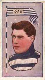 Cigarette card of Alec Eason from the 1912 Sniders & Abrahams series.